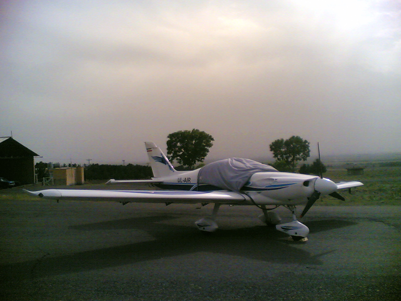 Glider - Nishapur. Corvus Phantom, Iranian registered